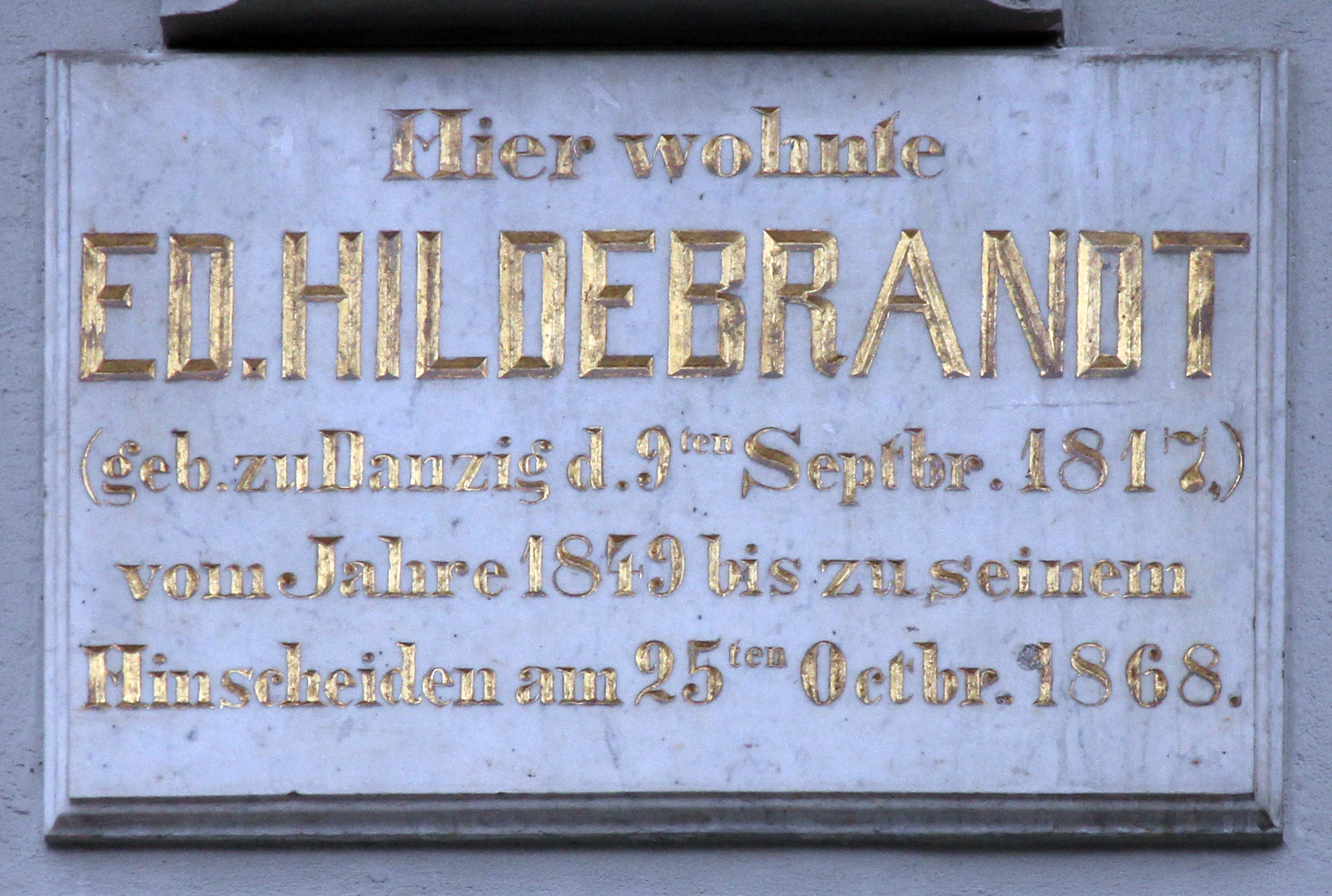 Memorial plaque, Eduard Hildebrandt, Am Kupfergraben 6a, Berlin-Mitte, Germany